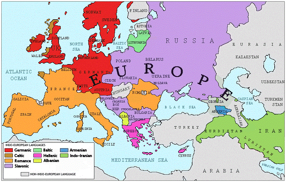 Indo-European languages in Europe. Note that the borders are not country borders.